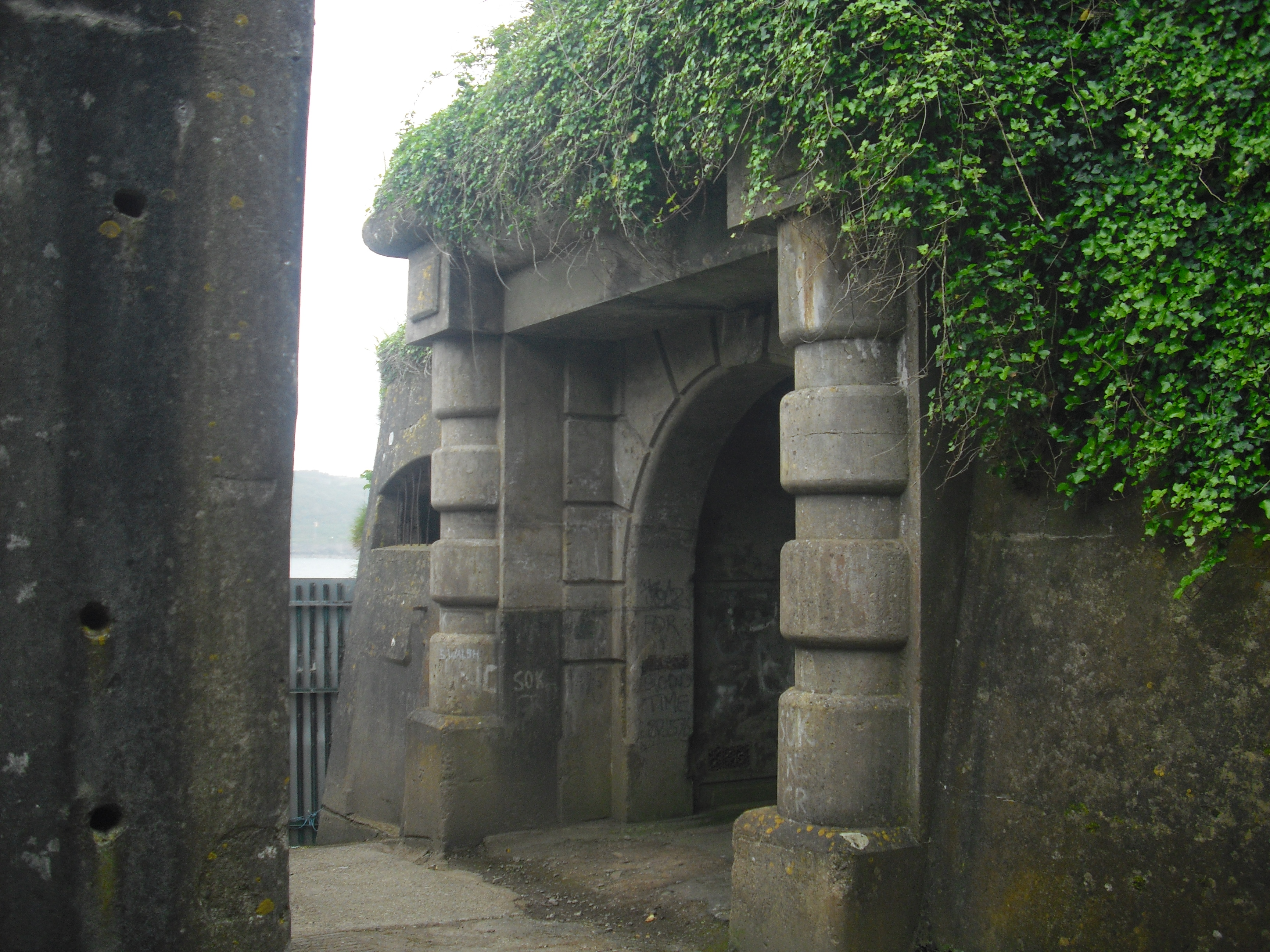 Camden Fort Meagher, close to Crosshaven, County Cork, Ireland (Gateway at pier level to lower courtyard)